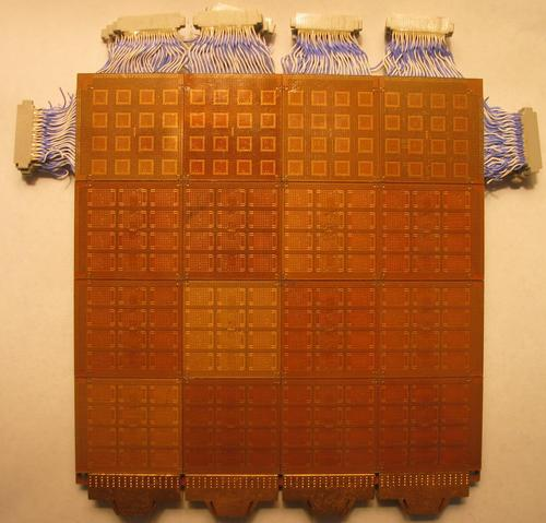 View of a complete Cray-3 memory module.